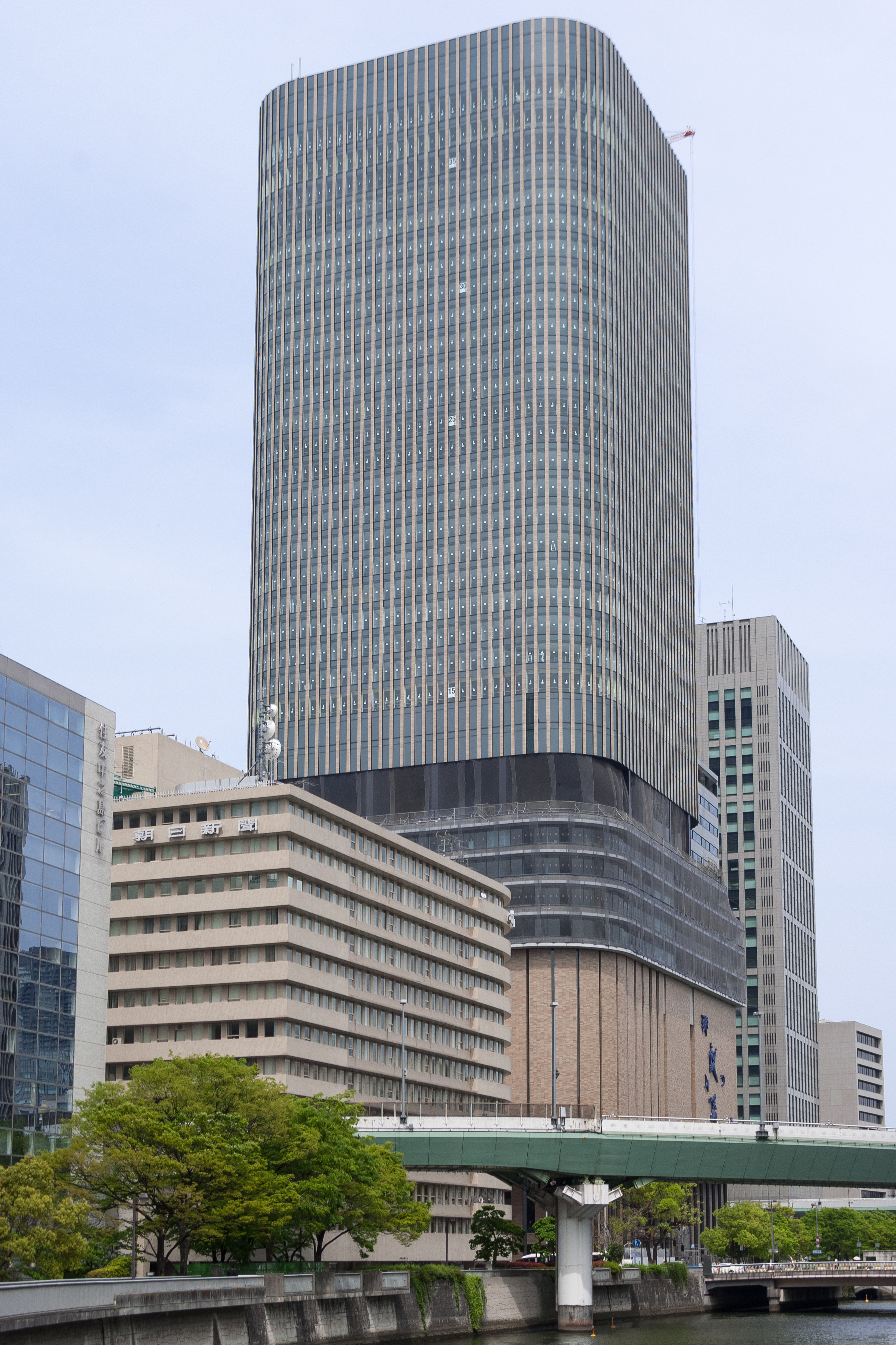 Photograph of the building site of Nakanoshima Festival Tower in Kita-ku, Osaka, Osaka Prefecture, Japan.